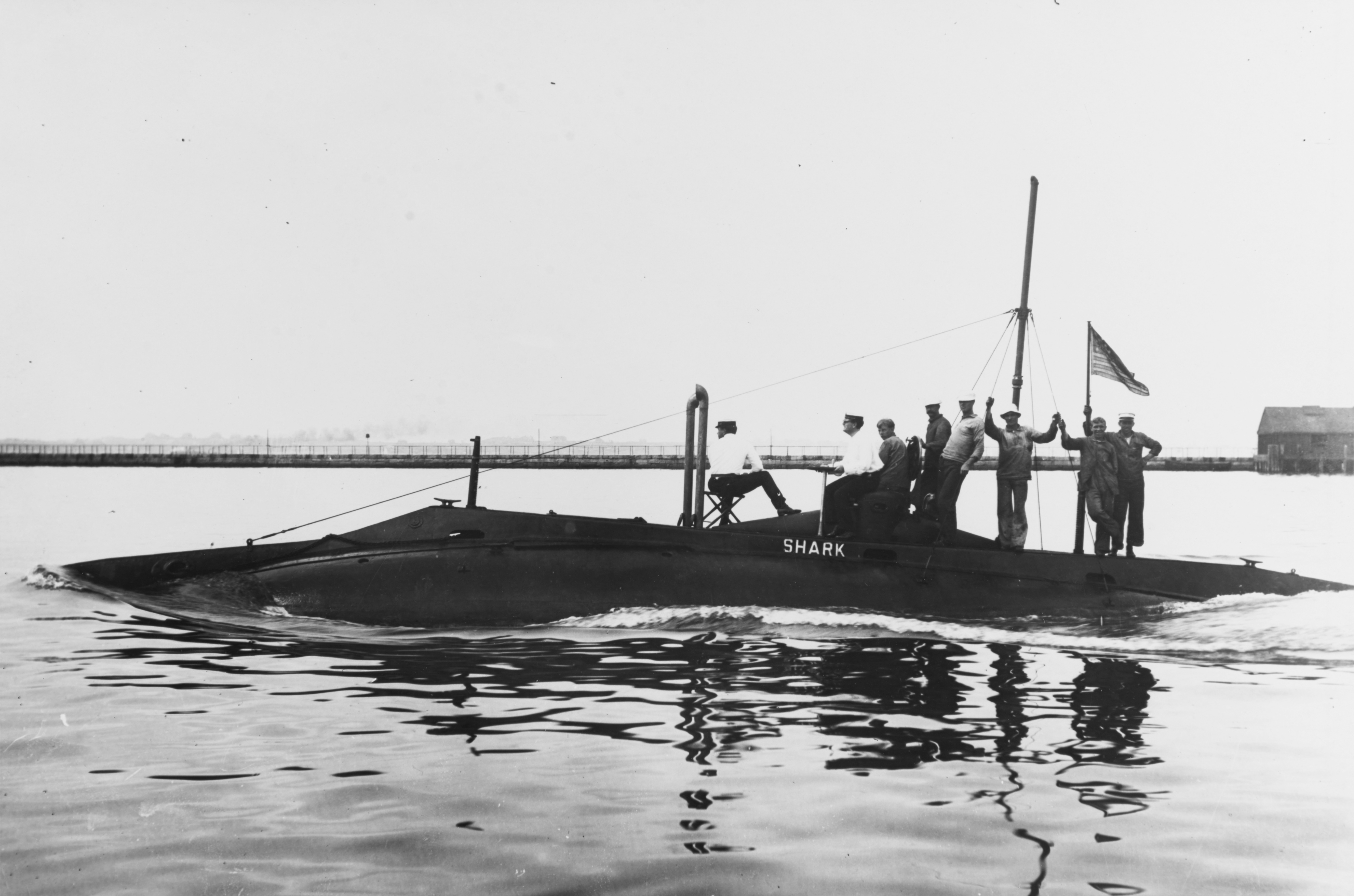 (Submarine # 8) Underway with members of her crew on deck, circa 1903-1907. Photograph from the Bureau of Ships Collection in the U.S. National Archives.